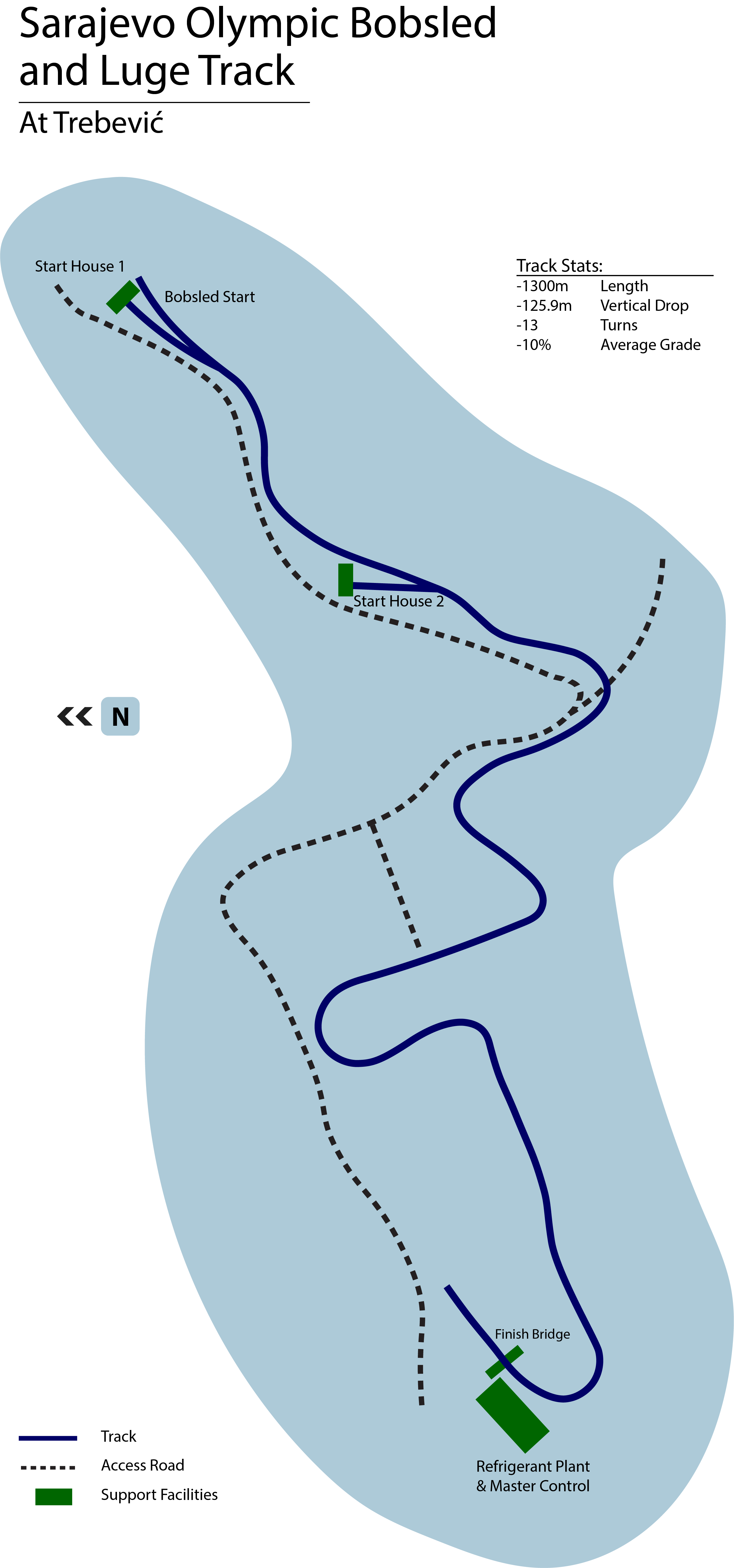 A Diagram of the full Sarajevo Olympic Bobsled and Luge Track at Trebevic